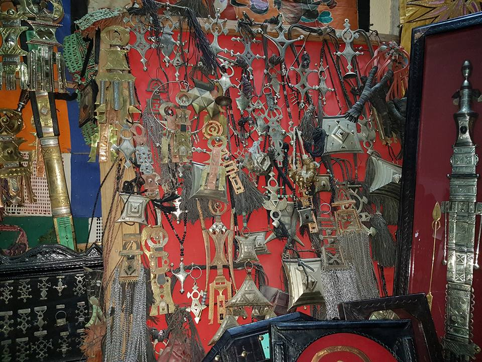 handicrafts as souvenirs